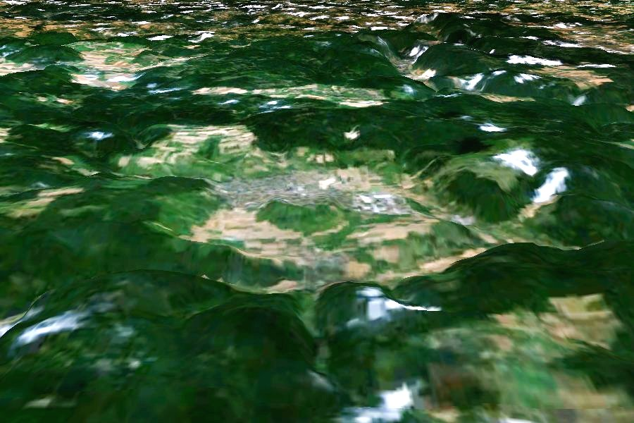 Steinheim Basin, view from south. Vertical exaggeration 3x.